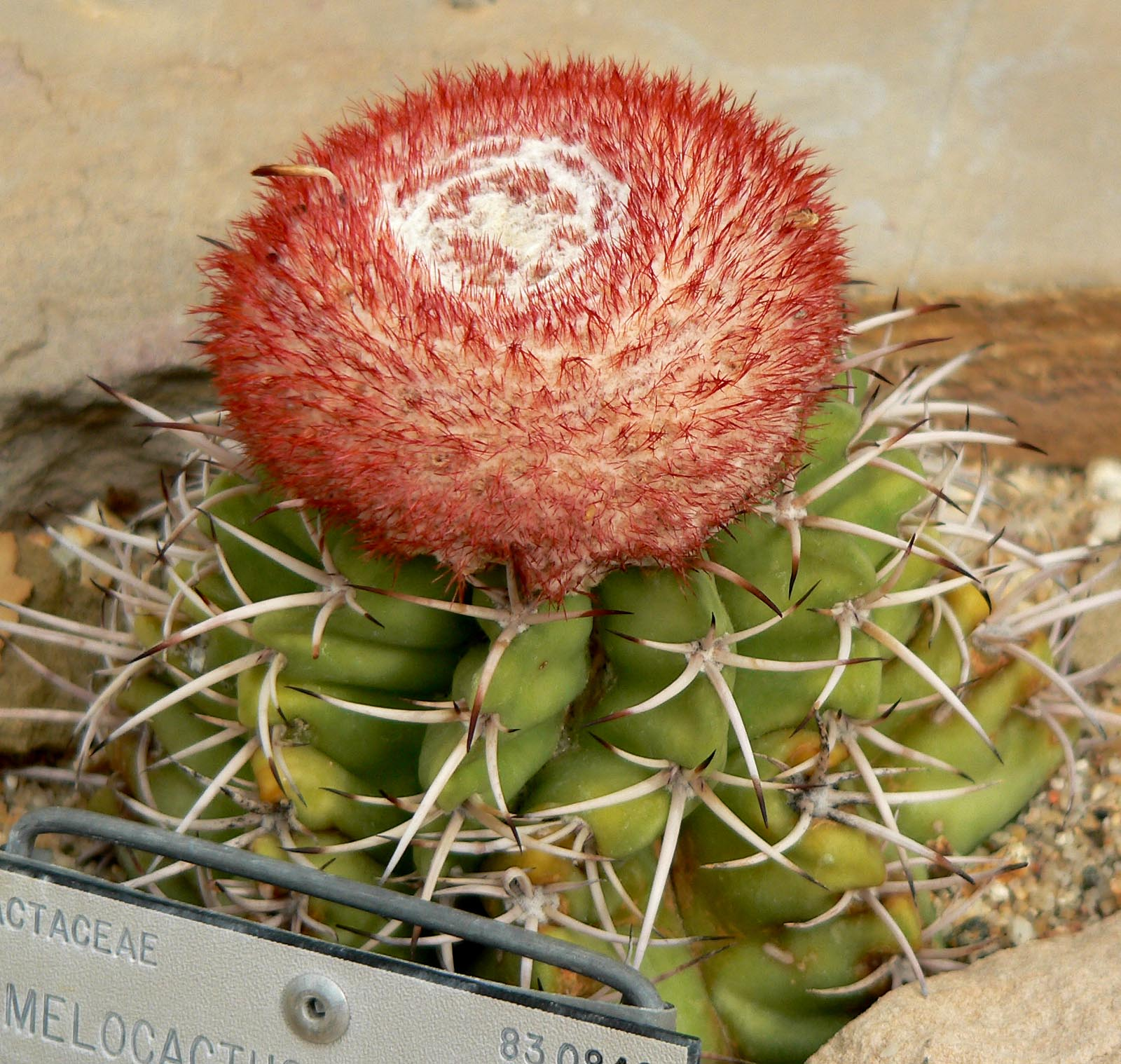 Photo of Melocactus concinnus at the University of California Botanical Garden